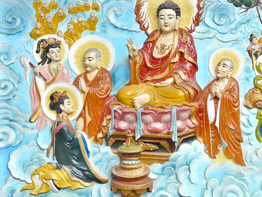 This photo was taken at Quan Am Pagoda, Cho Lon (Chinatown), Ho Chi Minh City, Vietnam. This relief depiction is in the courtyard next to the entrance to the street. Amitabha Buddha, the master of the Pure Land, is blessing a female devotee.